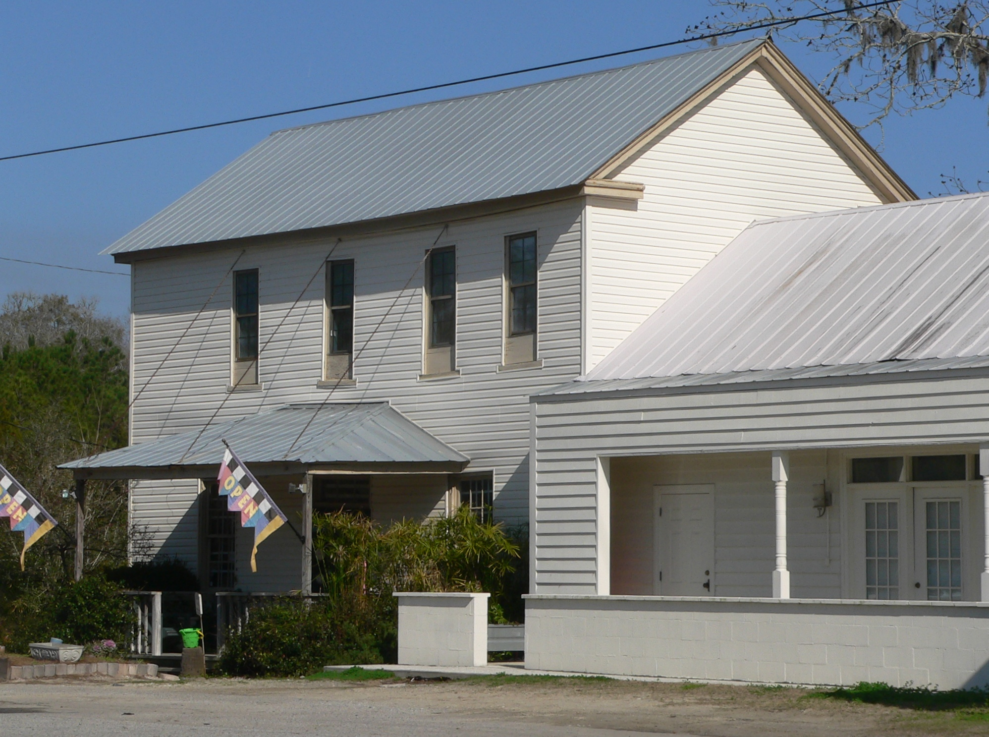 With These Hands Gallery, located at 1444 Highway 174 on Edisto Island, South Carolina.